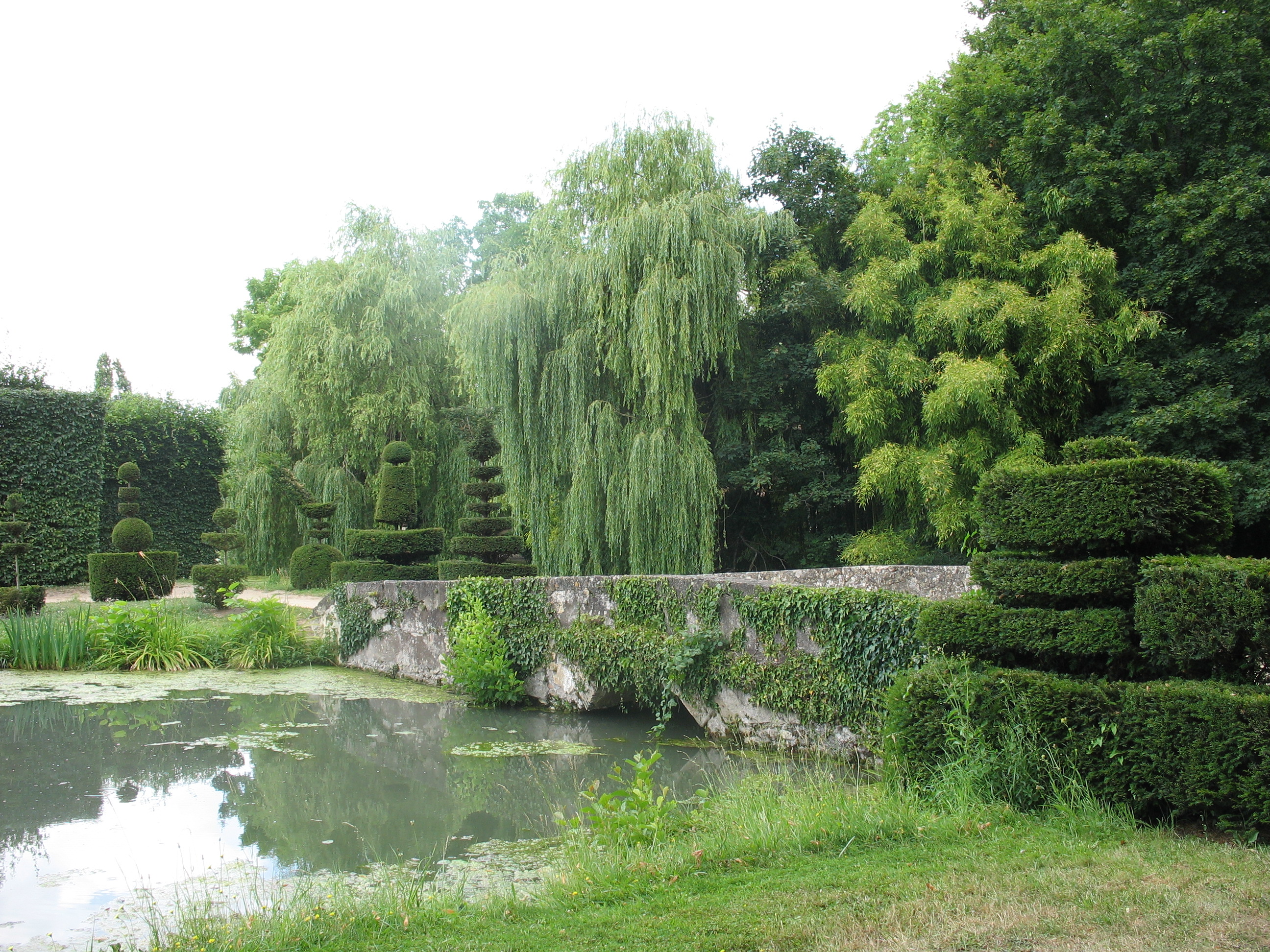 Garden of the Château d'Ainay-le-Vieil